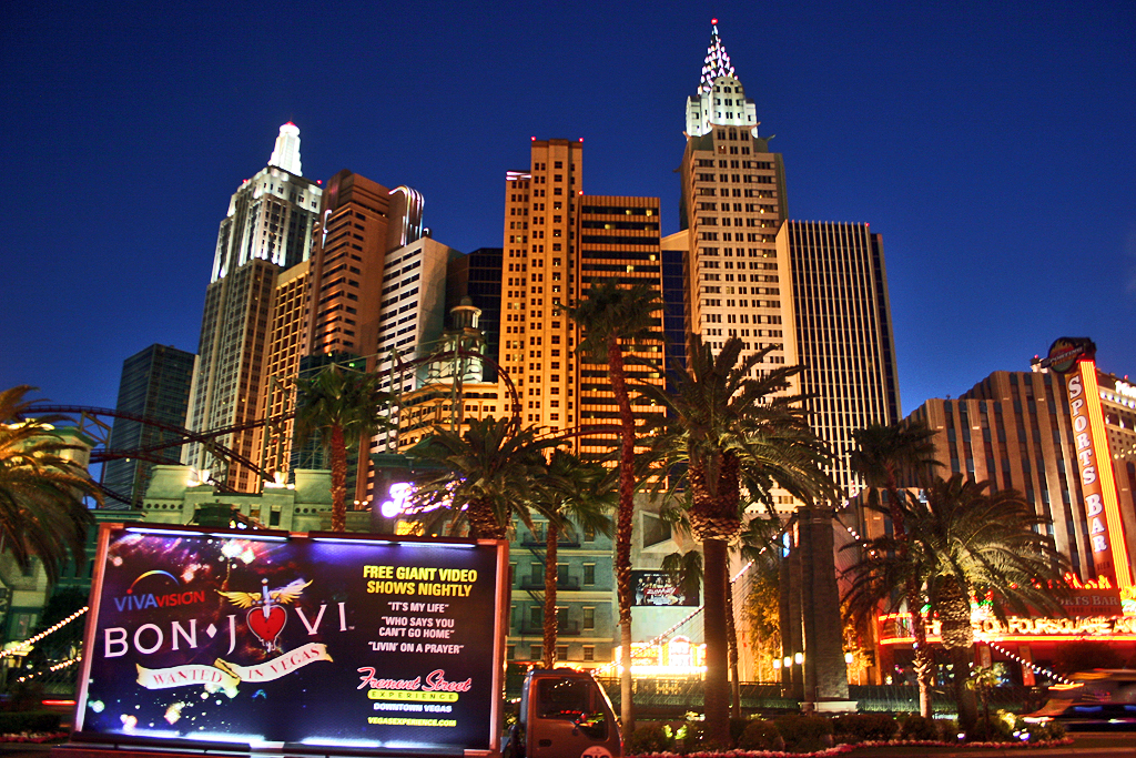 United States of America West Coast Trip 2012